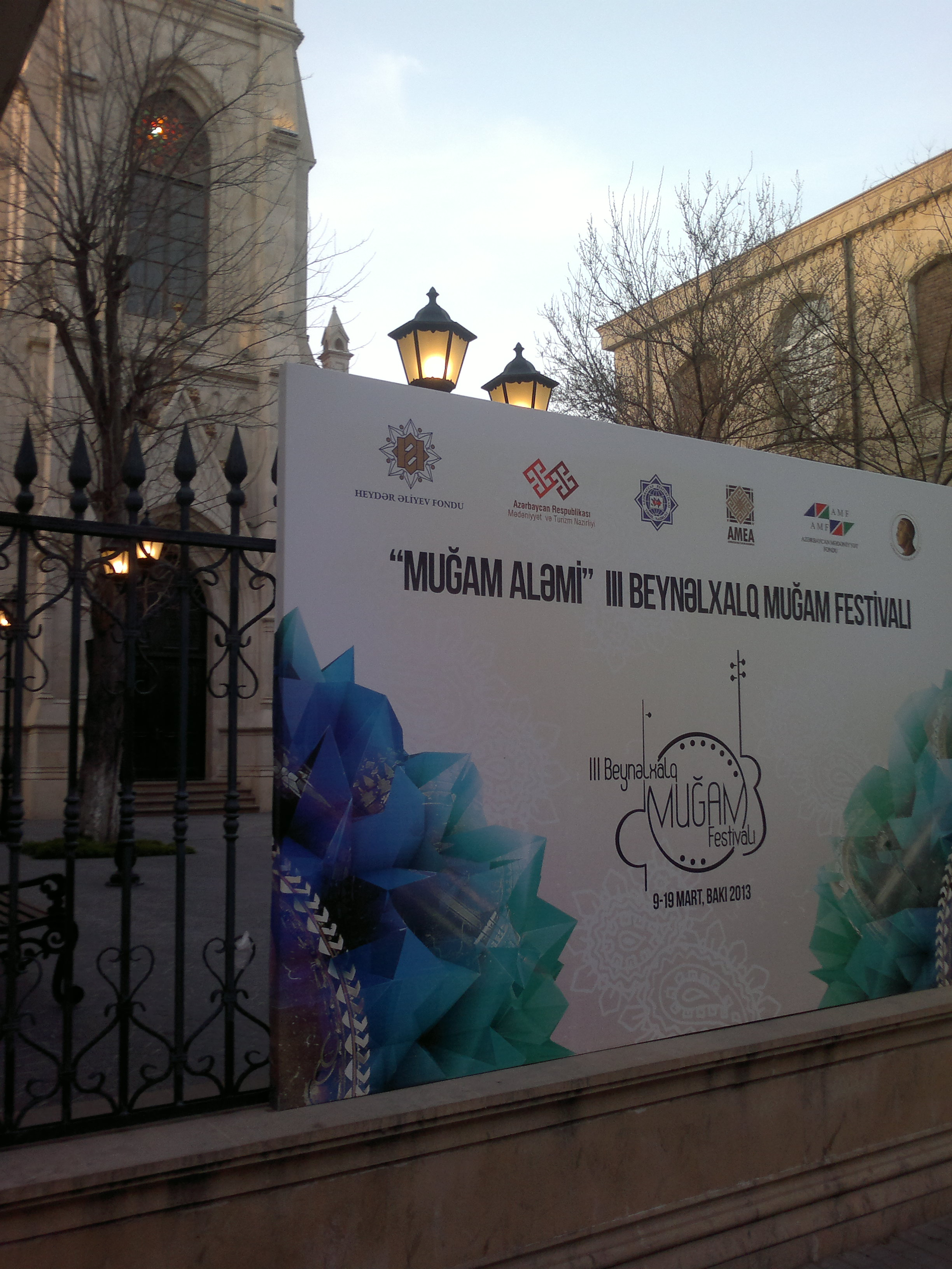 International Mugam Festival's poster on the gates of Lutheran kirche in Baku. Azerbaijan